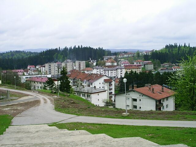 Han Pijesak, a town in Bosnia and Herzegovina